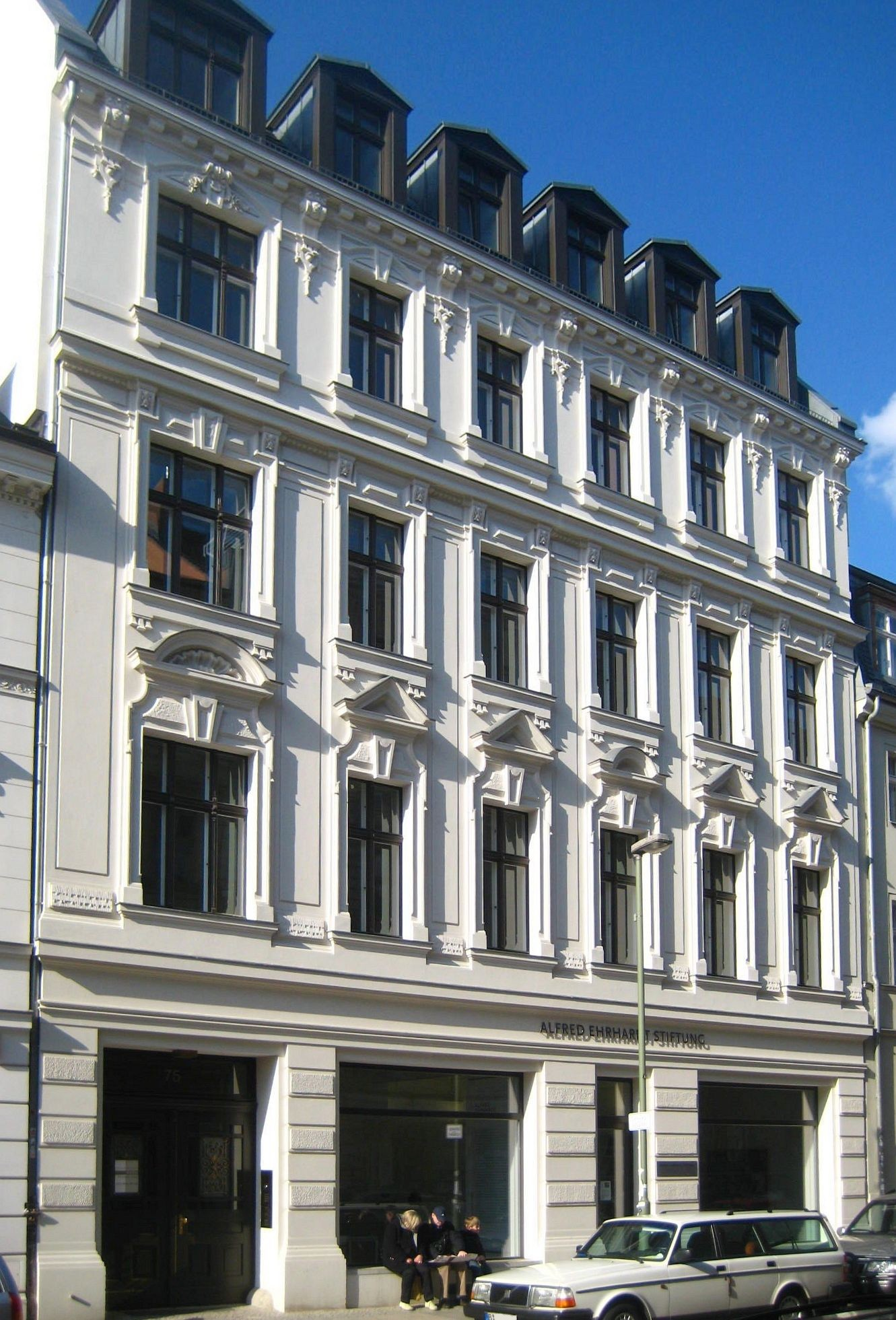 Residential building at Auguststraße No. 75 in Berlin-Mitte. The house was built around 1870. It is part of the protected historic buildings area Spandauer Vorstadt. The house is seat of the Alfred Ehrhardt Foundation.